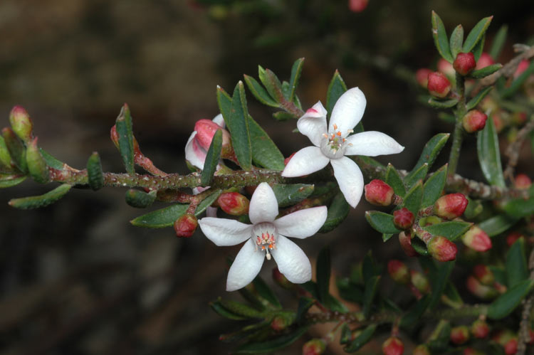 Philotheca scabra subsp. latifolia in the Australian National Botanic Gardens